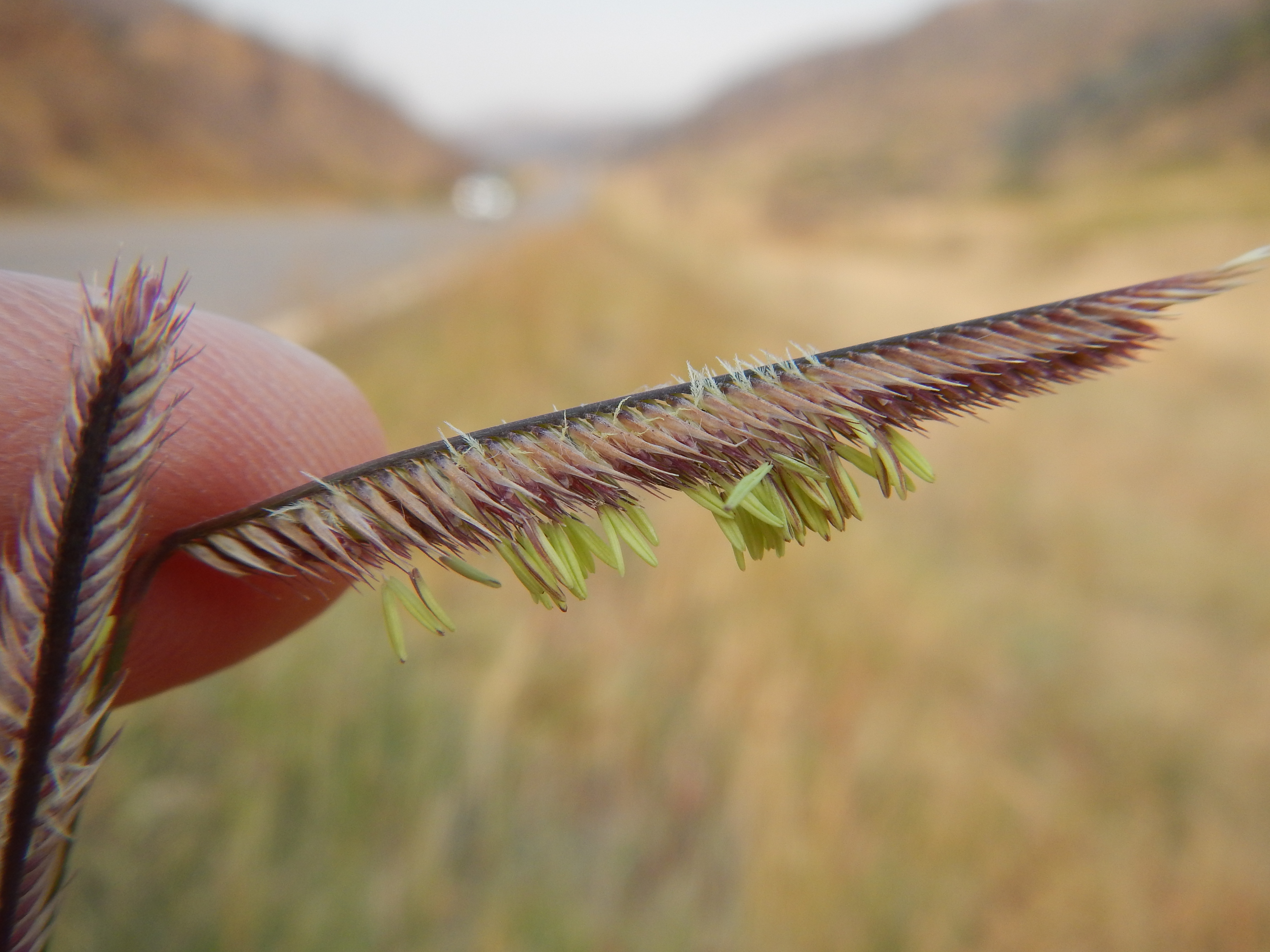 A spike of blue grama (Bouteloua gracilis) in bloom, with stigmas and anthers showing.